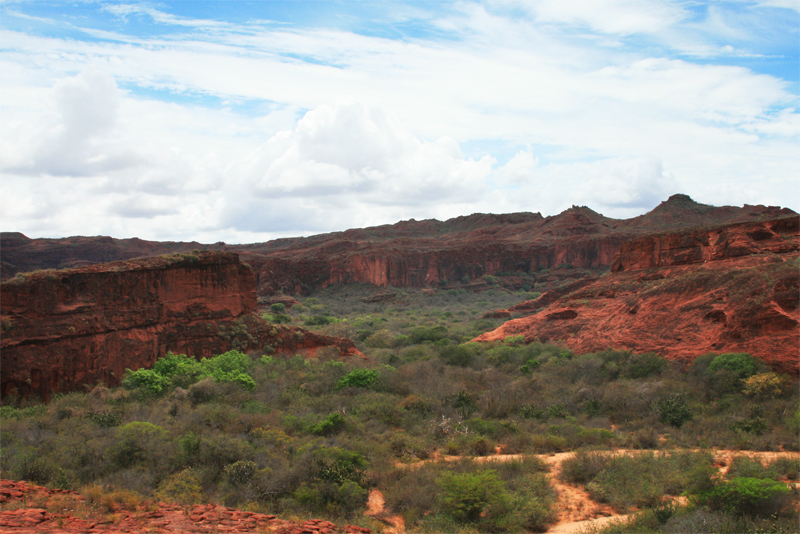 Sandstone cliffs in Bahia, Brazil. The rare parrot, Lear's Macaw (Anodorhynchus leari), nests in these cliffs.